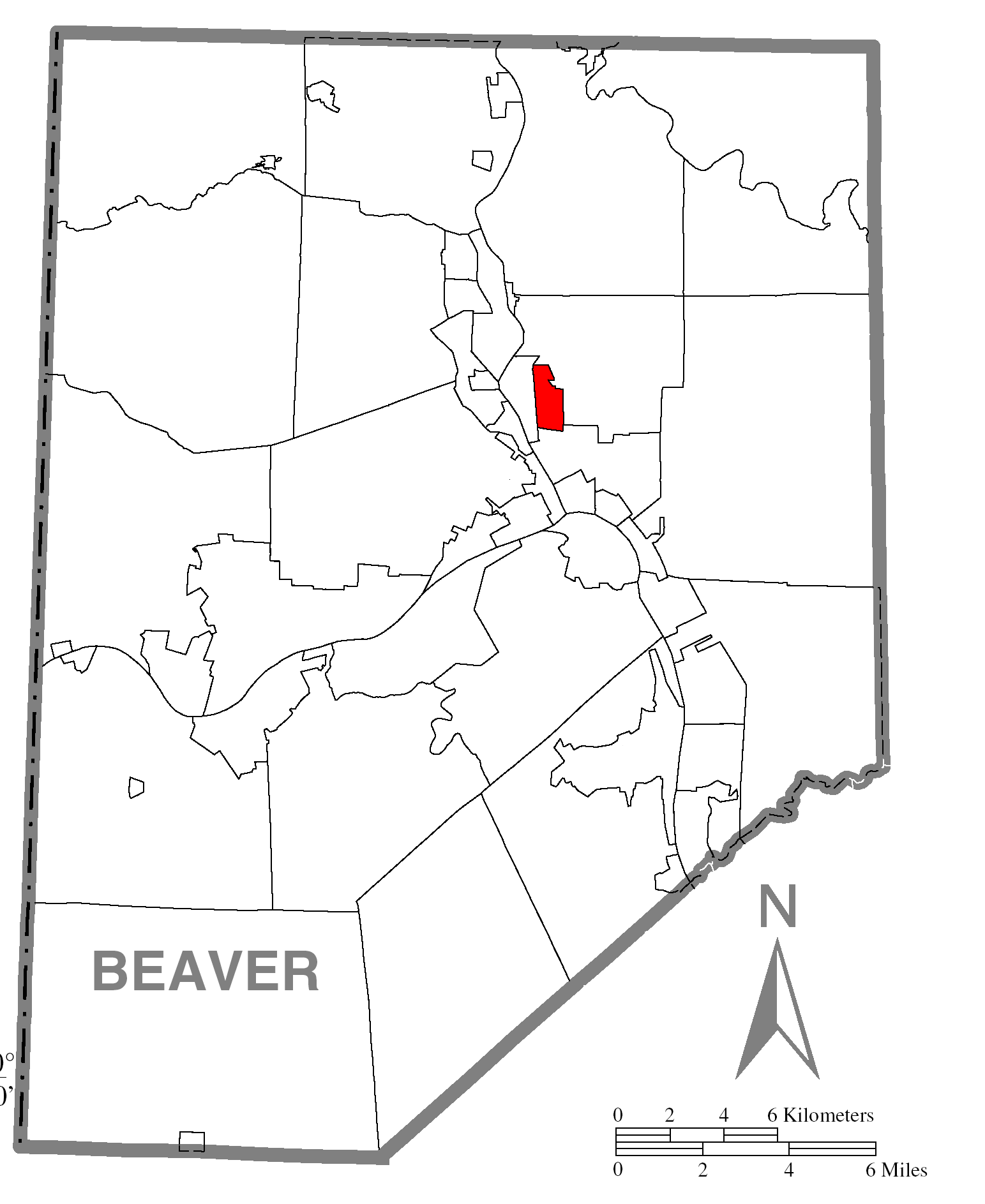 A map of Beaver County showing Pulaski Township, Pennsylvania (alternate) highlighted on the map.